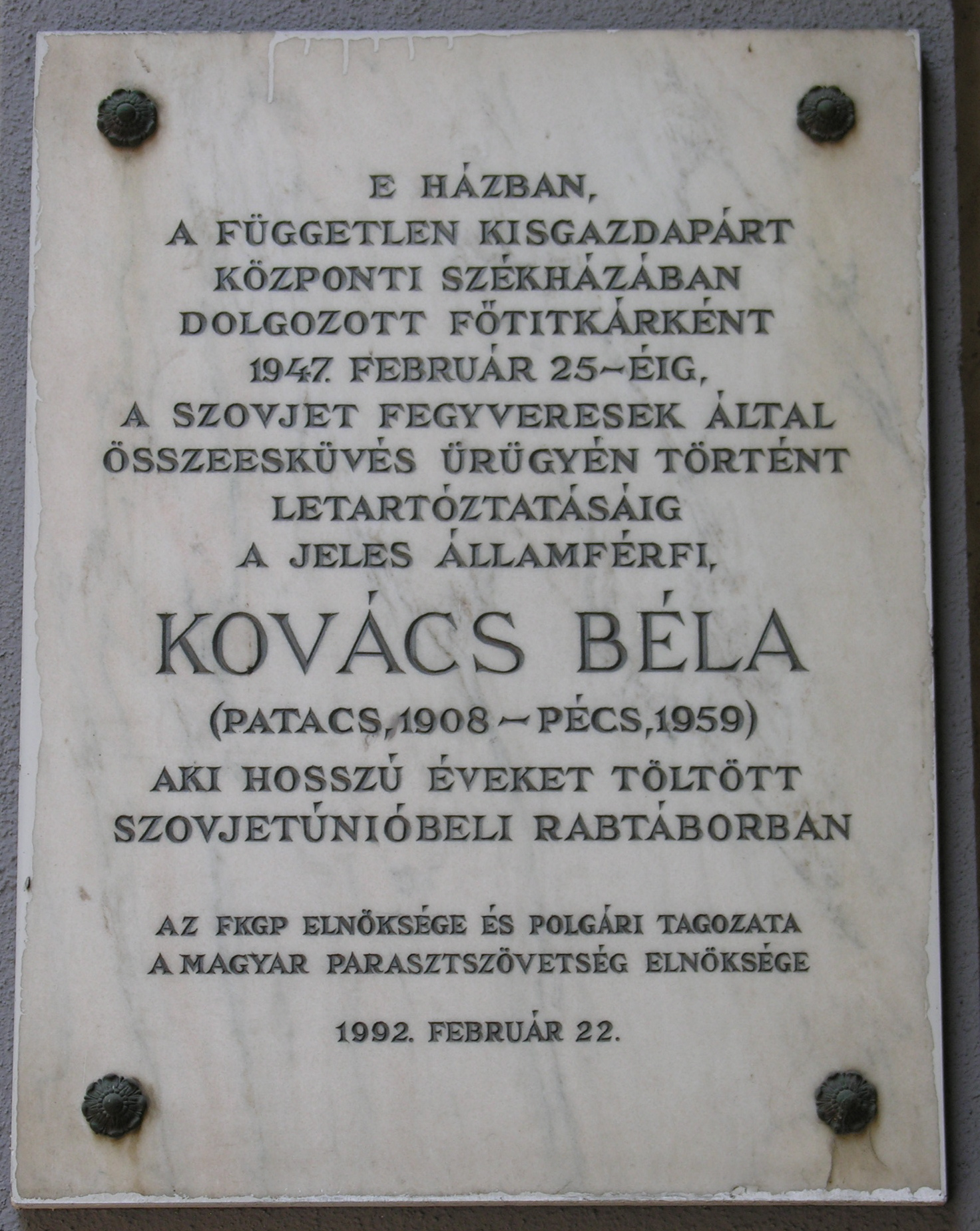 Commemorative plaque of the politician Béla Kovács (1908-1959), Budapest District V, Semmelweis Street No 1